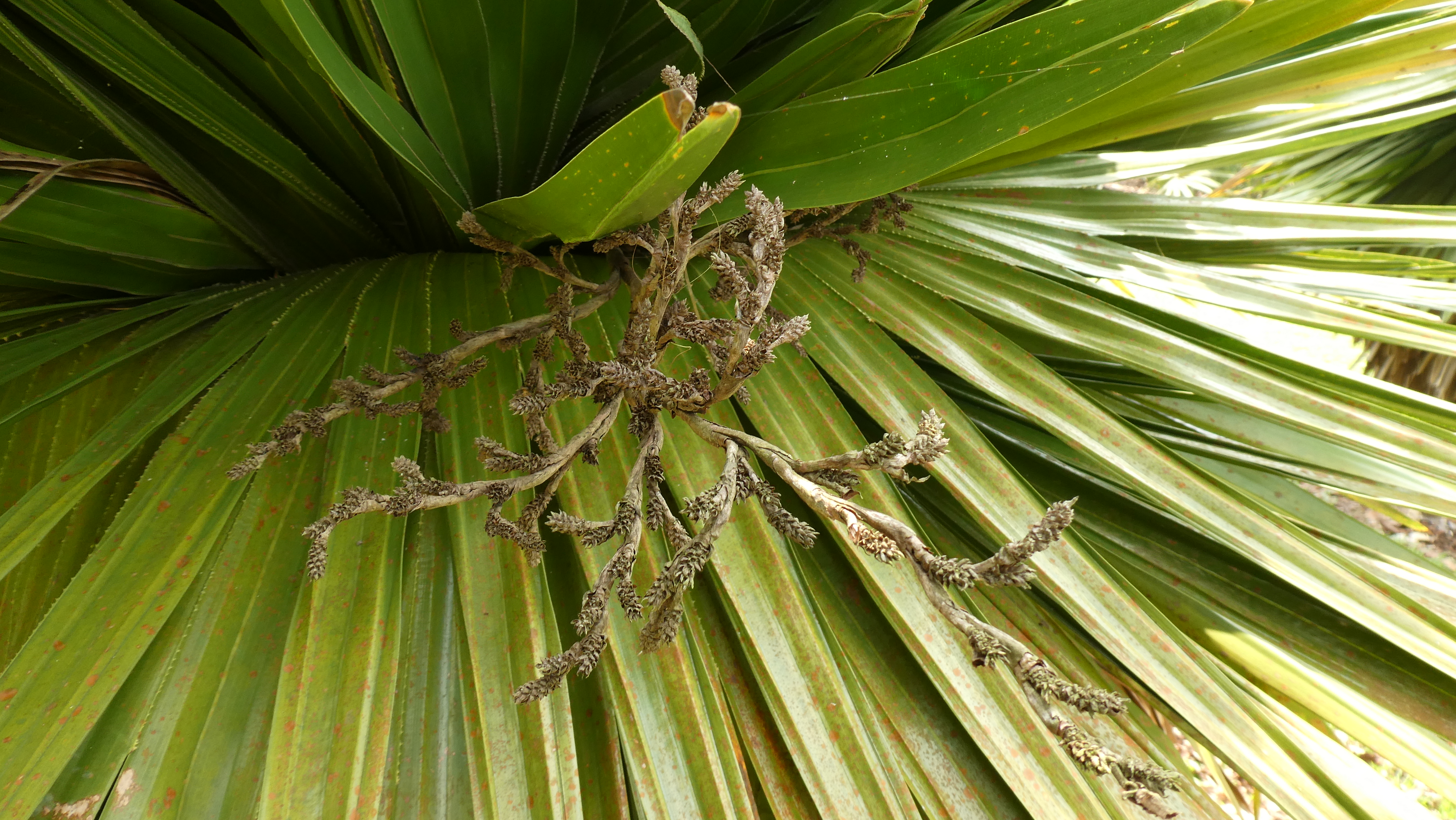 Copernicia macroglossa at the Singapore Botanical Garden